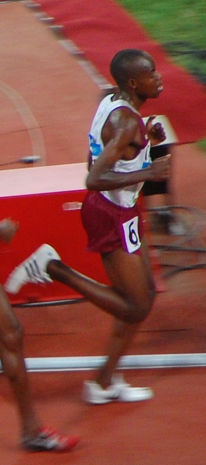 James Kwalia C'Kurui, 2008 Summer Olympics - Men's 5000m Round 1 - Heat 3